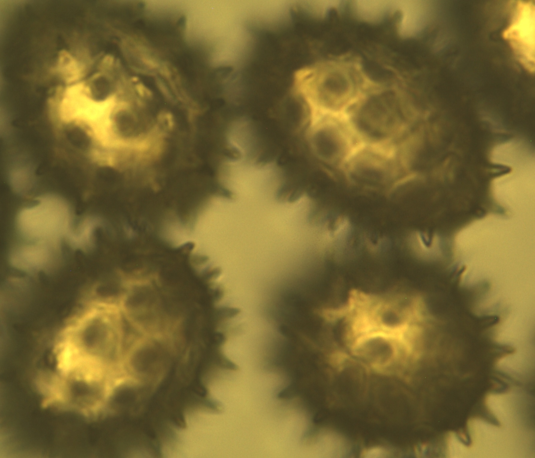 Cosmos pipinnatus Pollen 400x